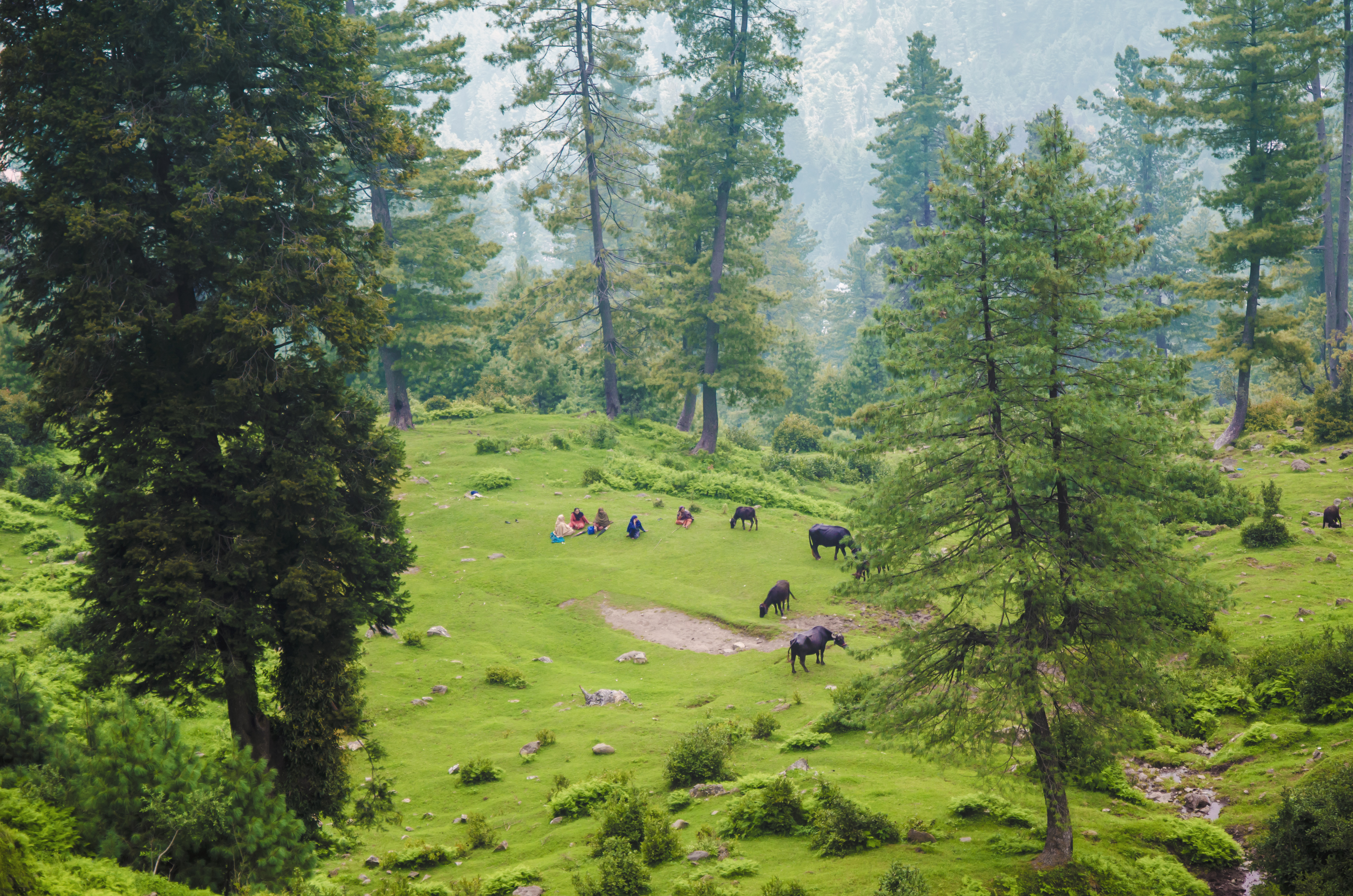 Overlooking meadows from Ganga Choti located in Azad Jammu and Kashmir, Pakistan. Ganga Choti is the tallest mountain in the Bagh district.